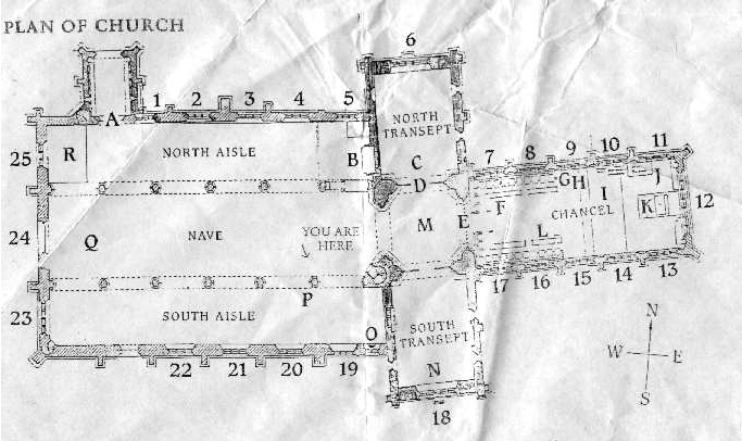 Taken in September 2005.